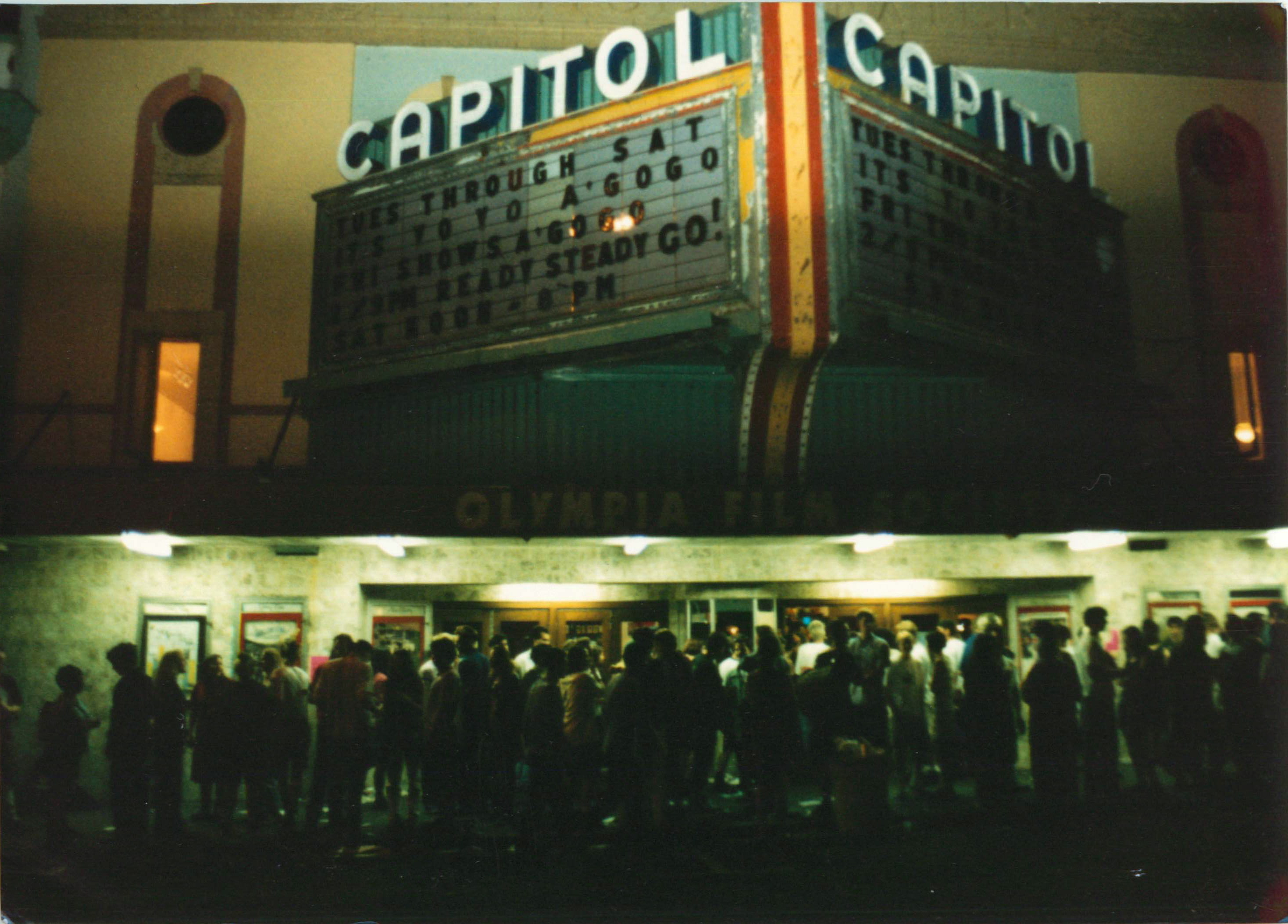 capitol theater at night